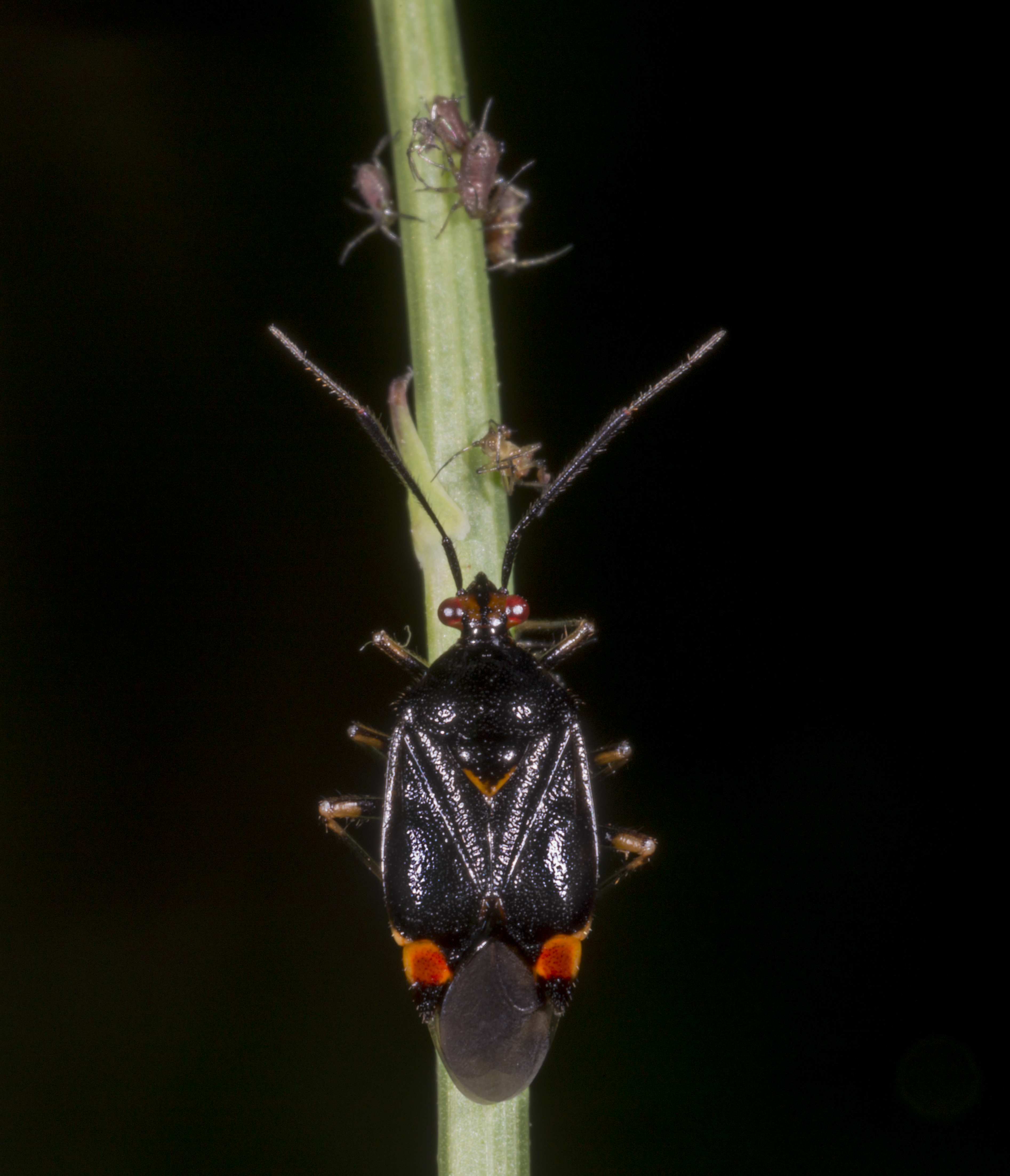 Mirid Bug. Adult, dark form with aphids.